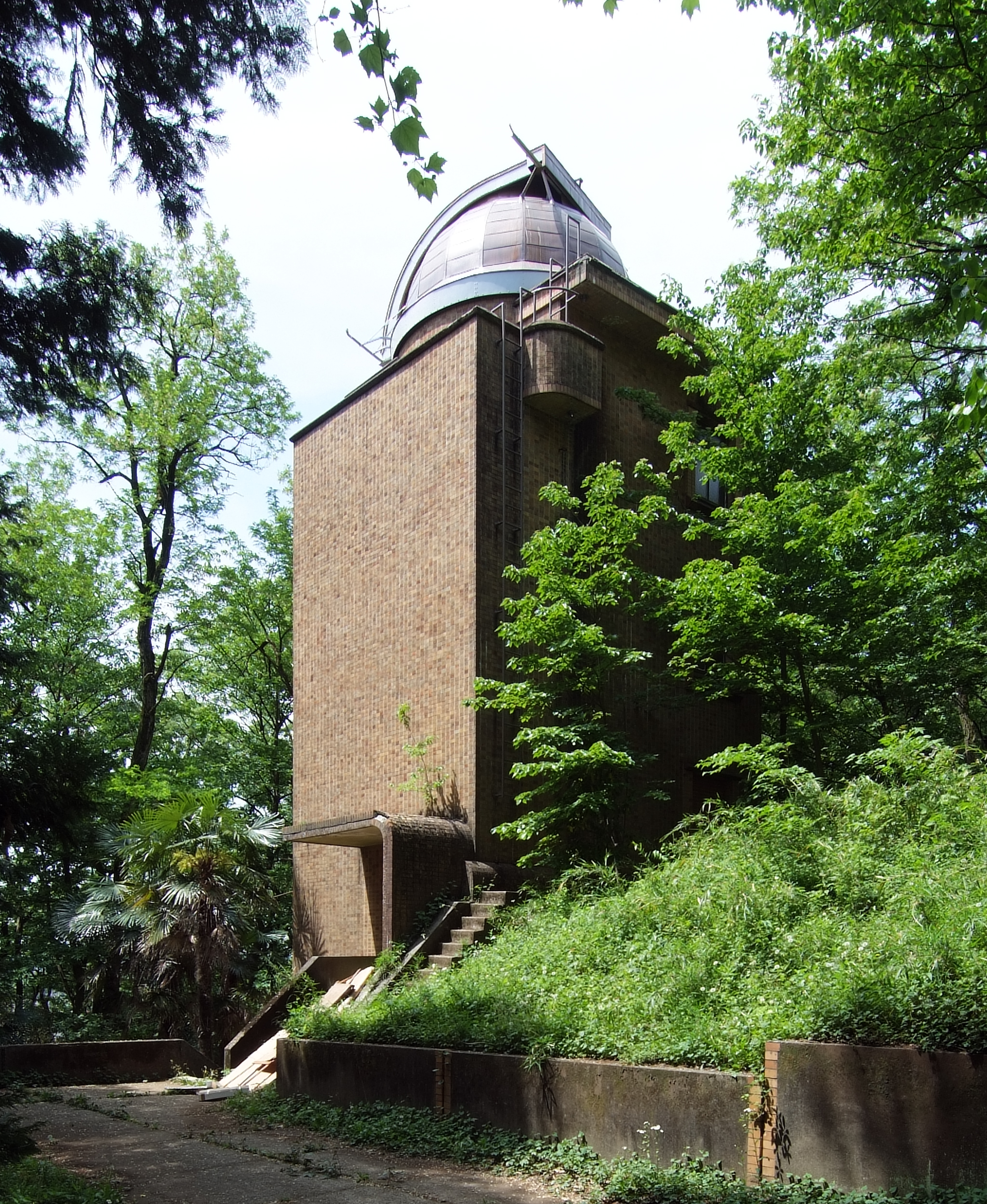 Solar Tower Telescope (The Einstein Tower), Mitaka Tokyo Japan, built in 1930.